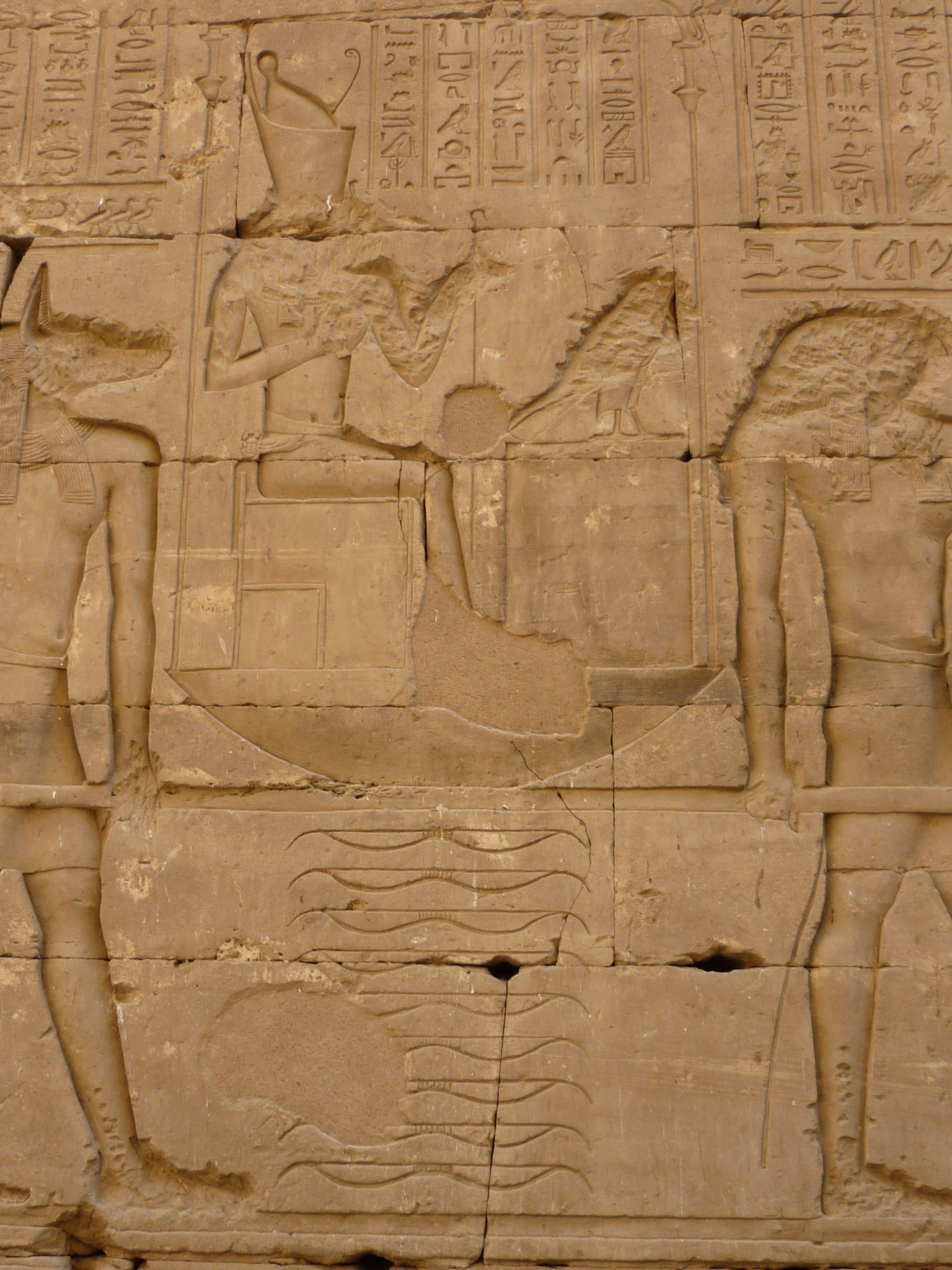 Wall relief of Horus, temple of Edfu, Egypt